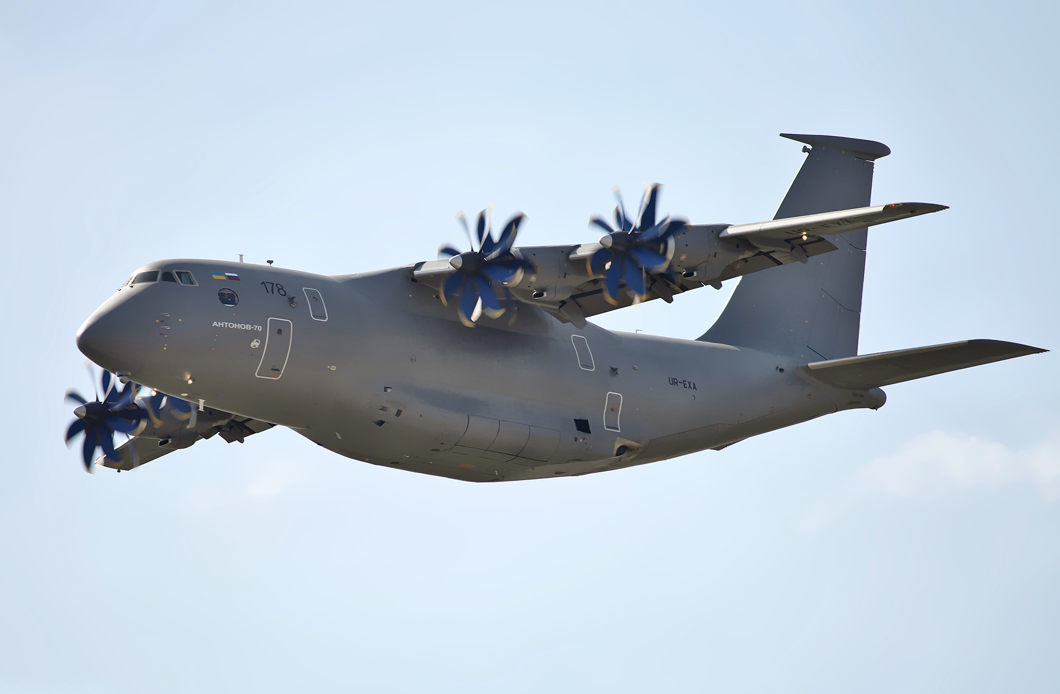 Antonov An-70 Ramenskoye Airport